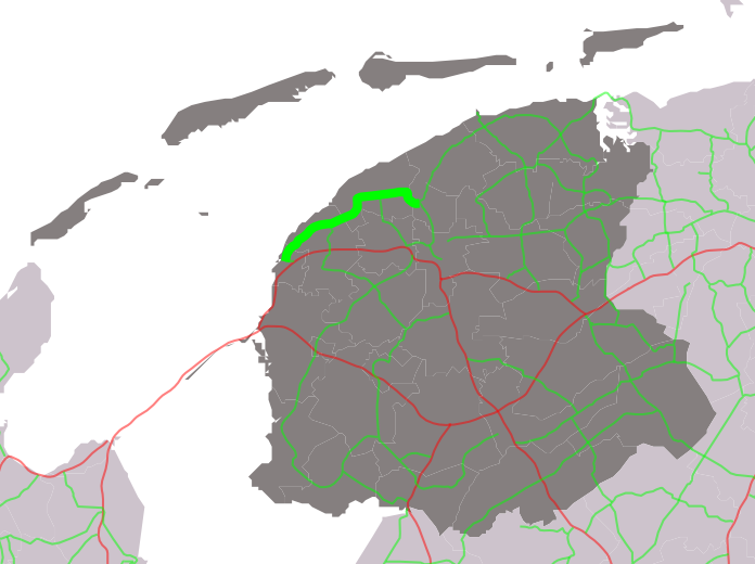 Map of Friesland with Dutch provincial road no. 393